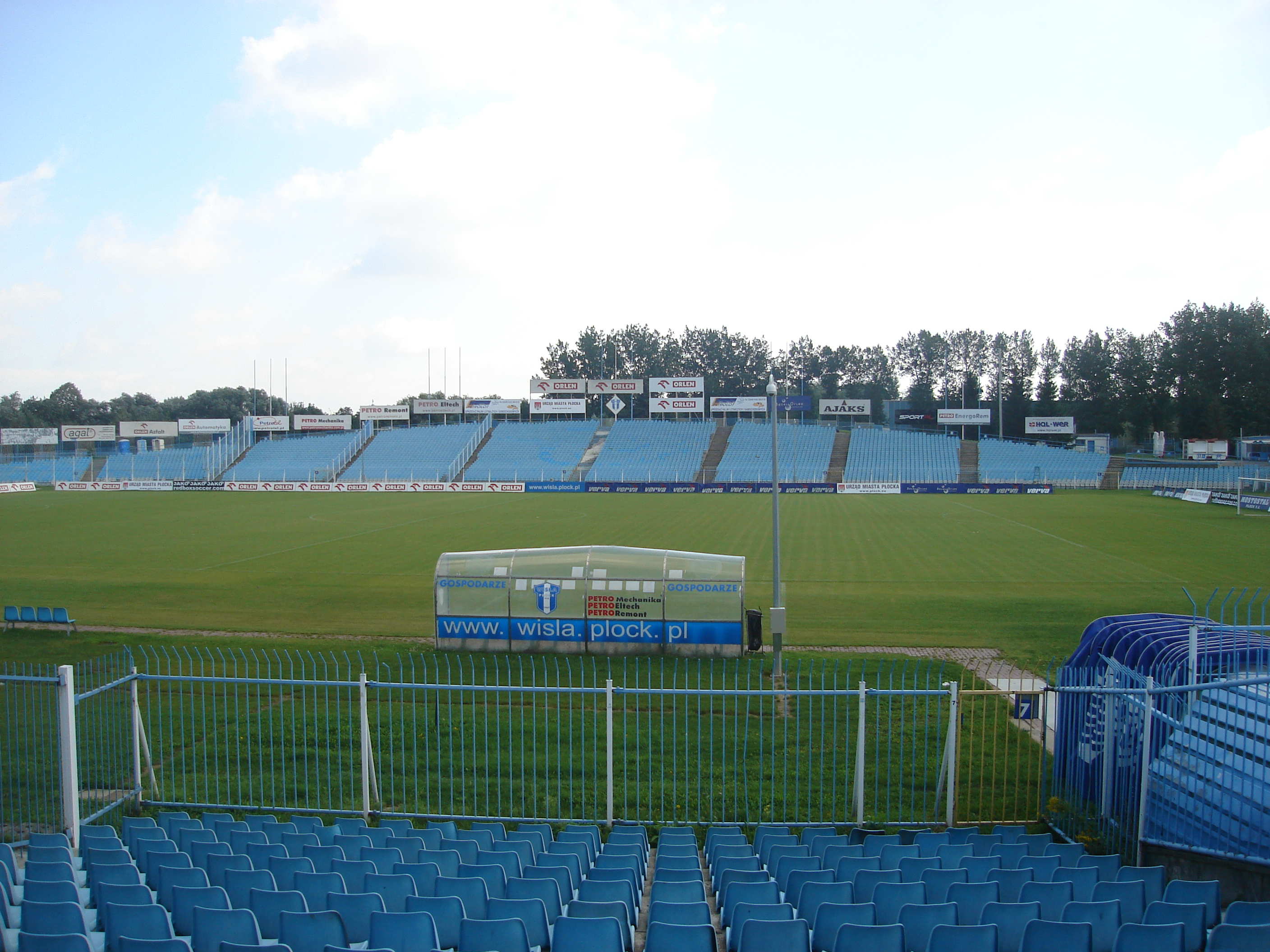 Kazimierz Górski Stadium, home ground of Wisła Płock